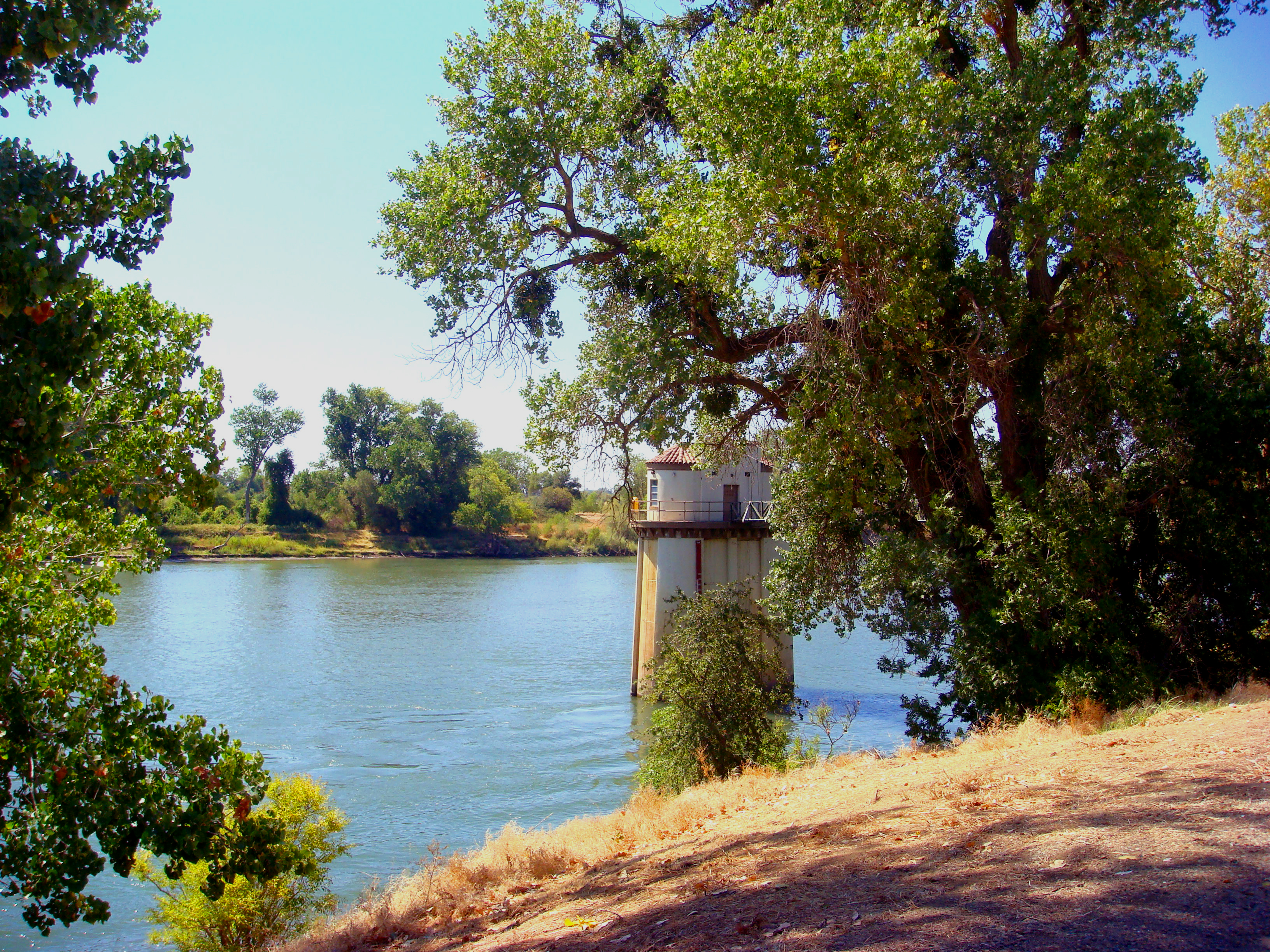 The Sacramento river near the old pumping station. Photo by J. Simonsen. Used with permission.